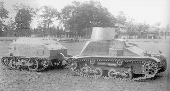 Photograph of the Type 94 Gas Vehicle